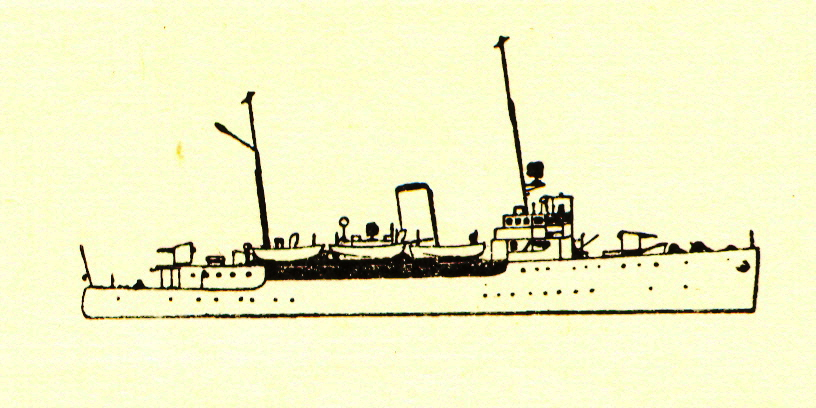 Danish Gunboat Hvidbjørnen (1928)